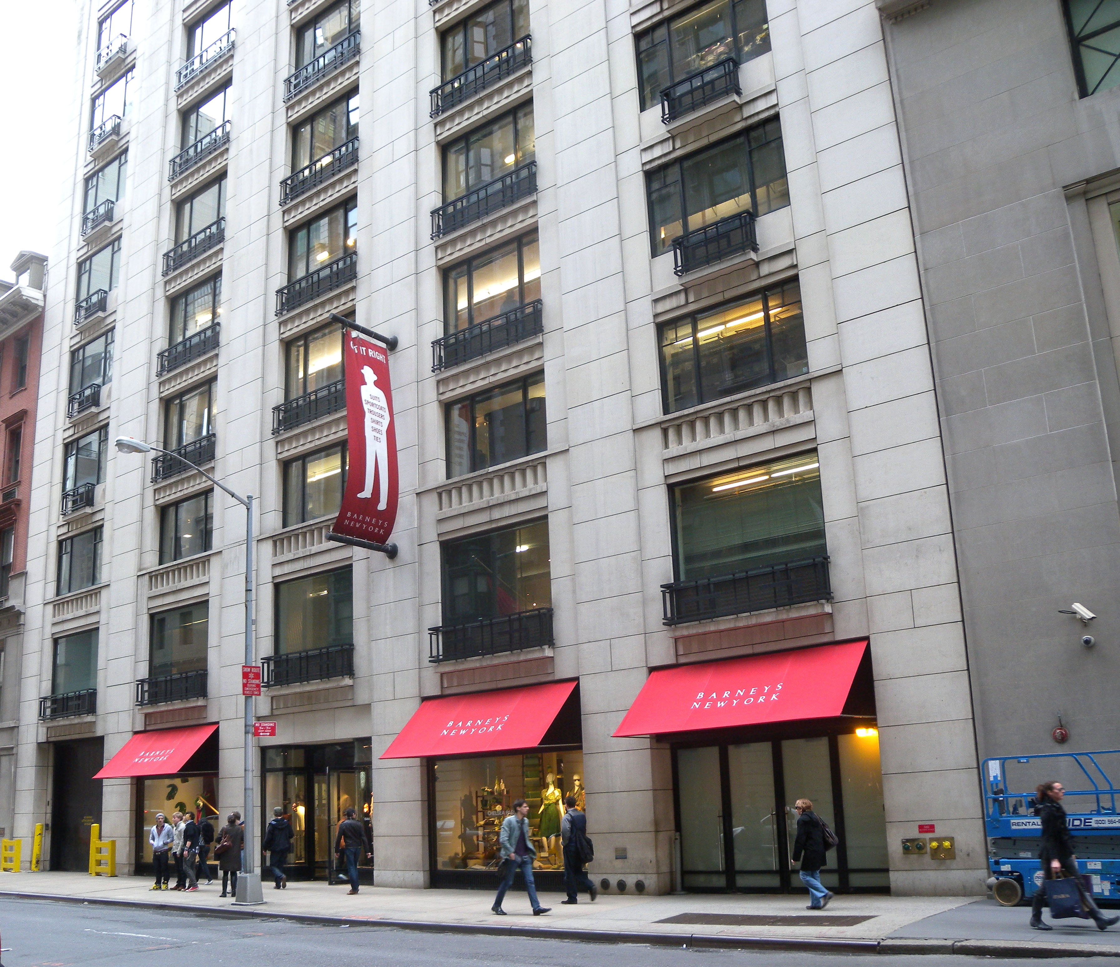 Looking north across 60th Street at Barneys on a cloudy afternoon.